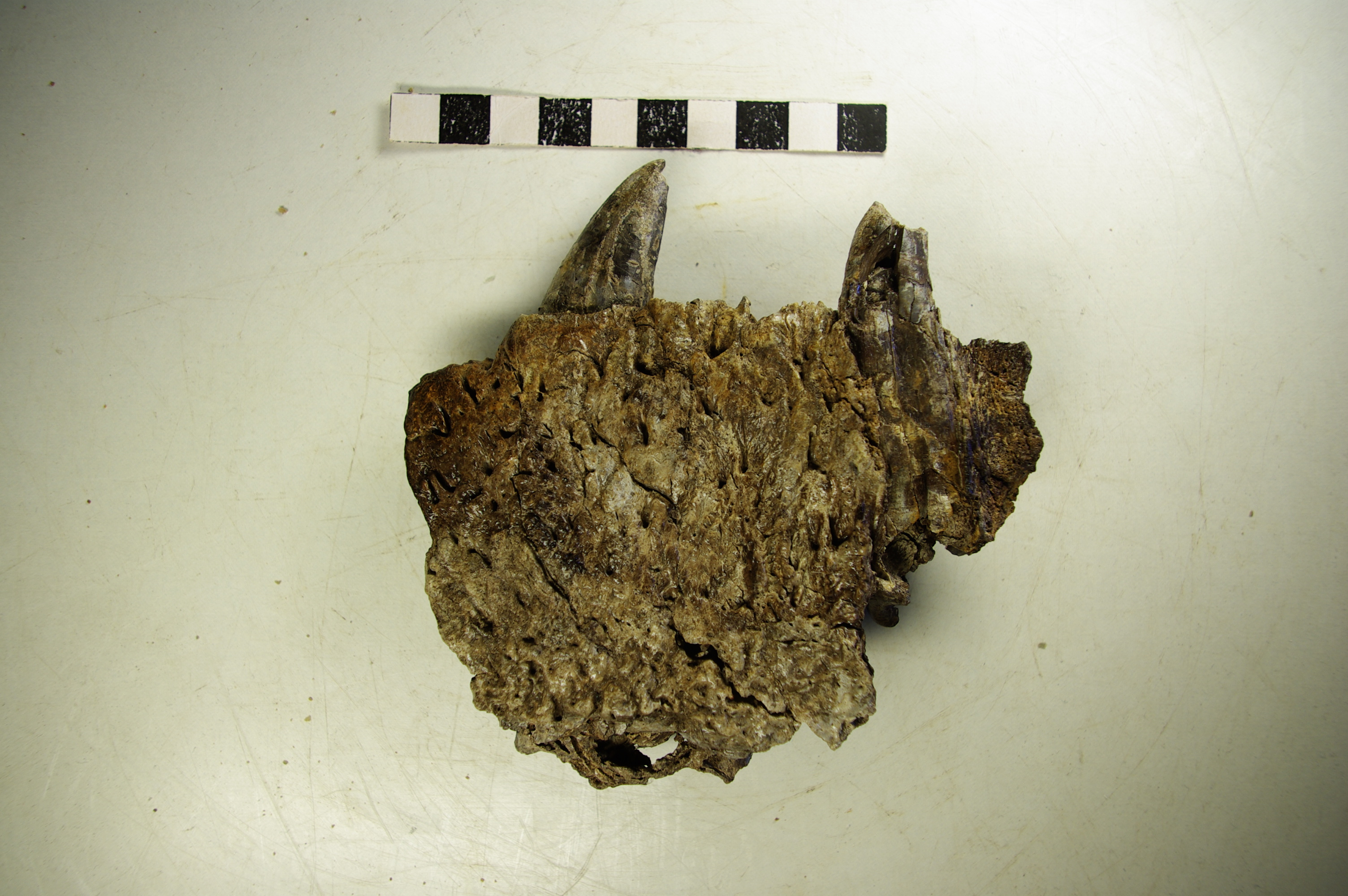 Right Premaxilla Fossil of Iberosuchus (SMF 181)